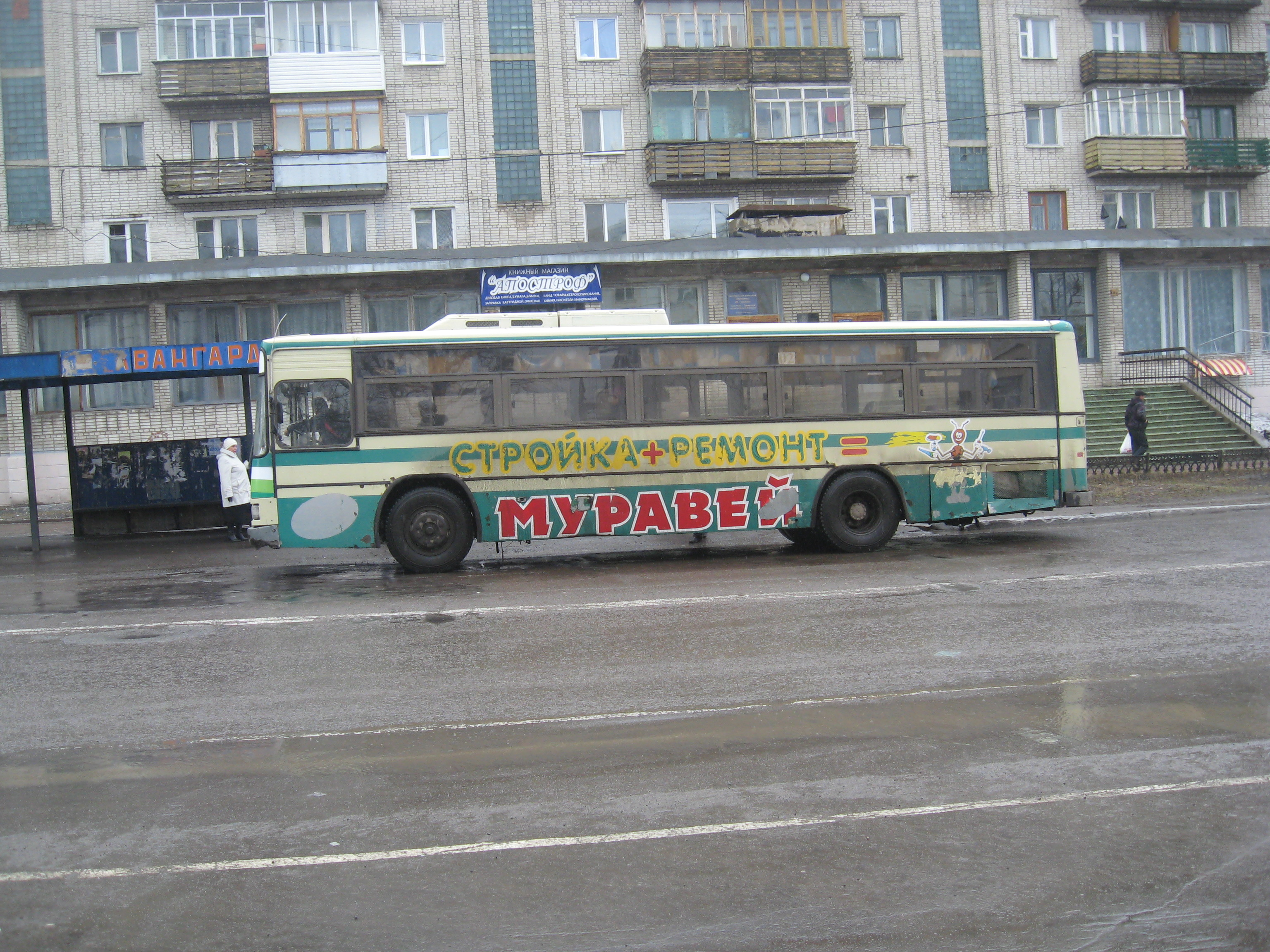 The Sity of Sovetskaya Gavan. "Daewoo" bus